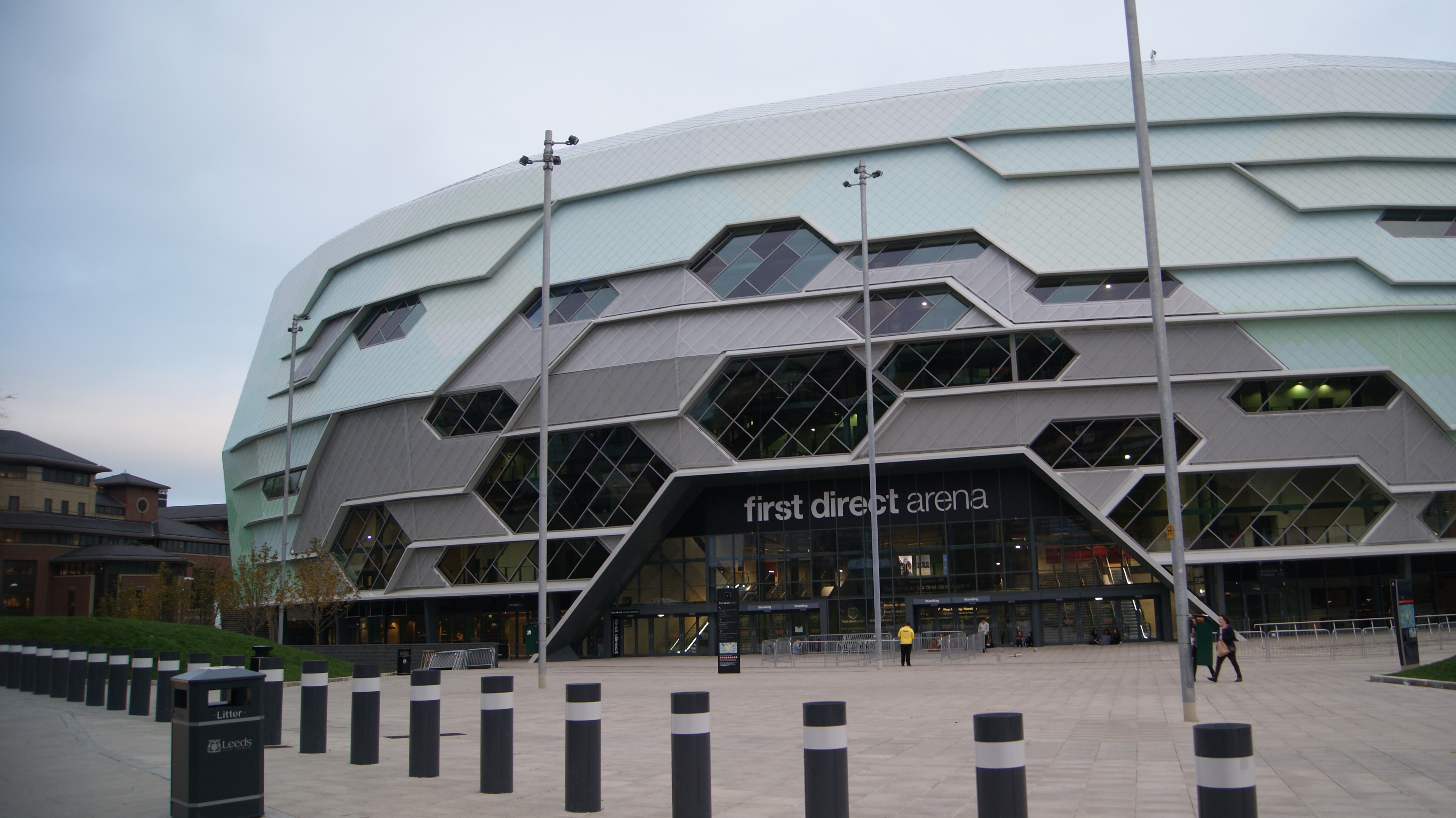 First Direct Arena, Leeds, West Yorkshire. Taken on the afternoon of Saturday the 16th of November 2013.